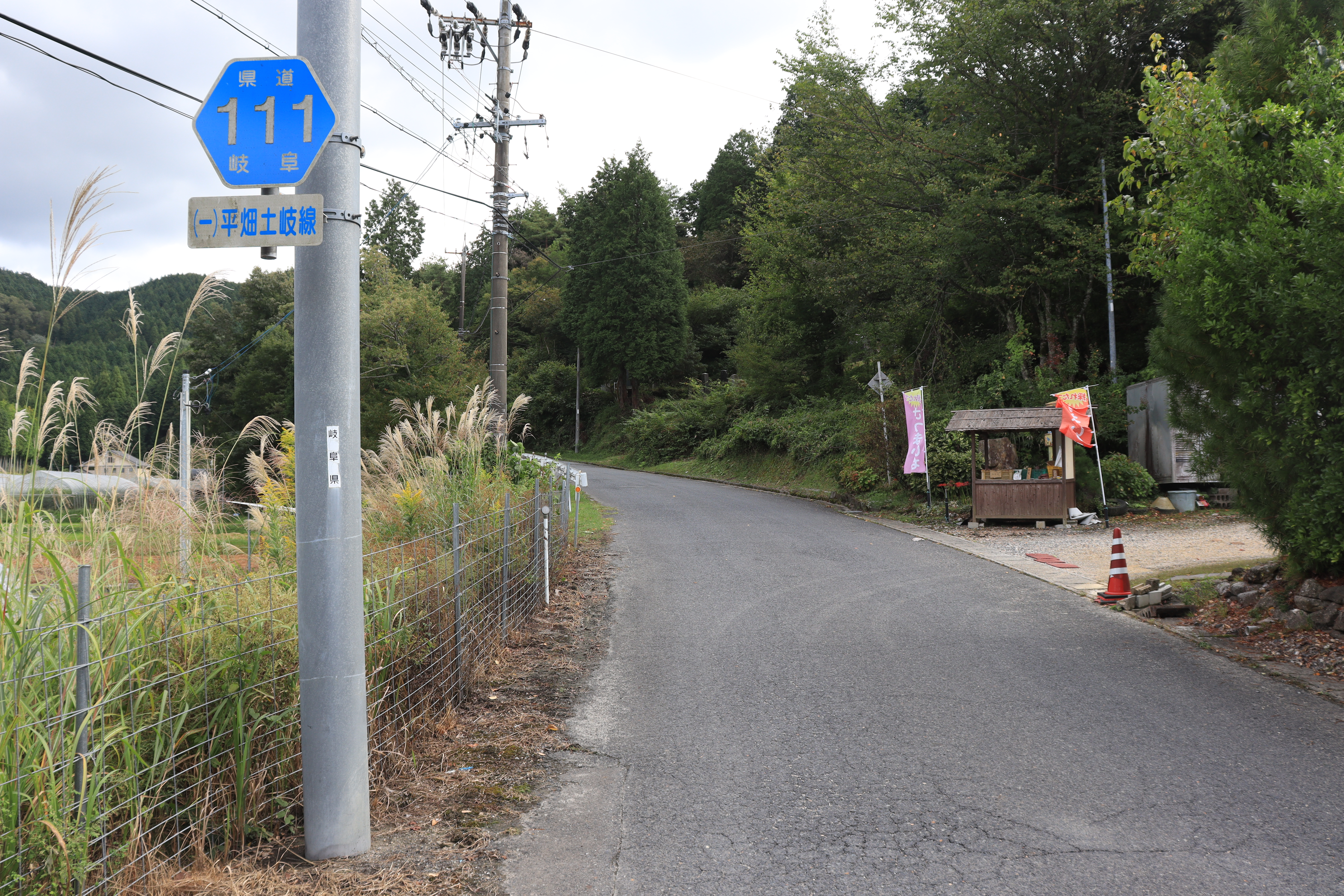 Gifu Prefectural Road Route 111 in Sogicho, Toki, Gifu Prefecture, Japan.